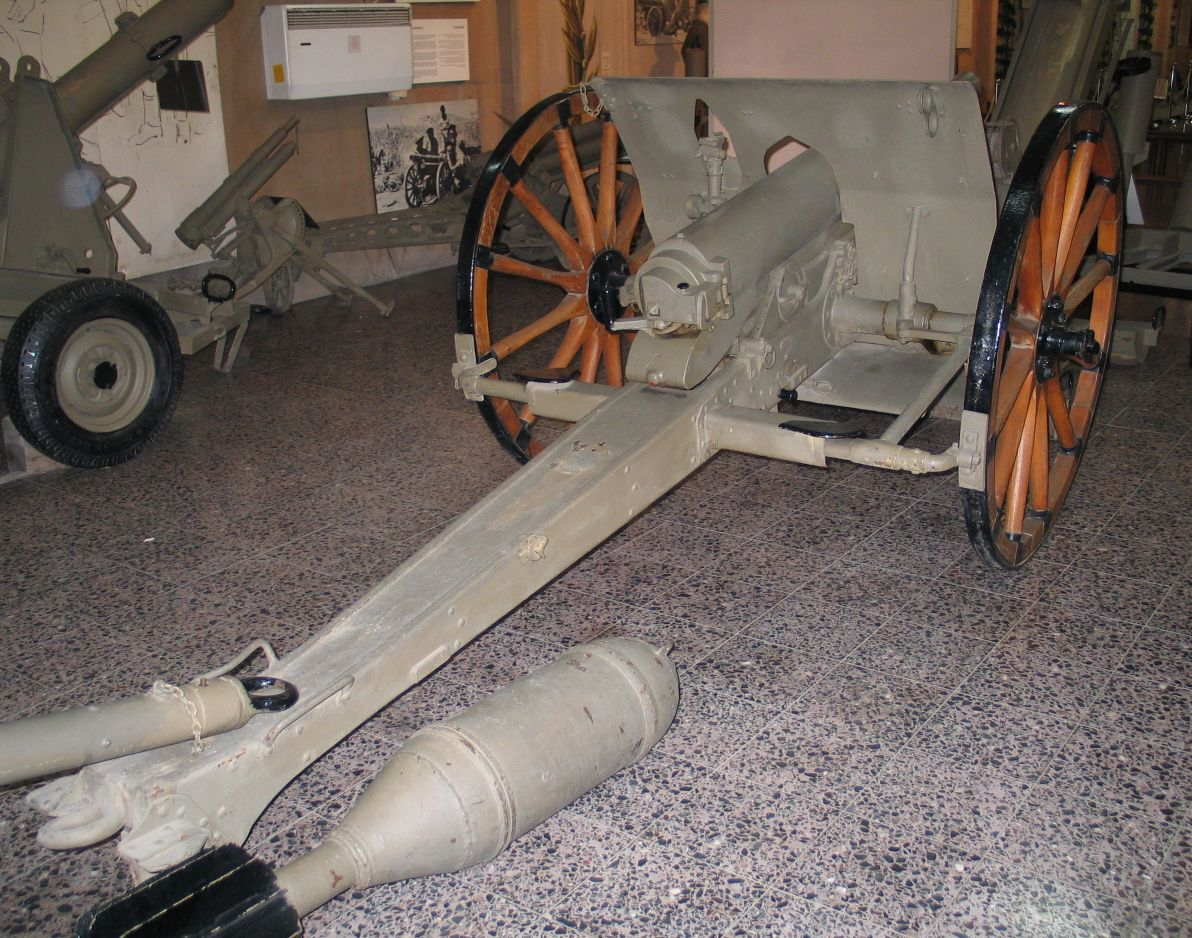 Description: French Canon de Tir Rapide 75 mm St Chamond (known in the IDF as Kukaracha) in Batey ha-Osef Museum, Tel Aviv, Israel. 2005. Source: Photo by me, User:Bukvoed.